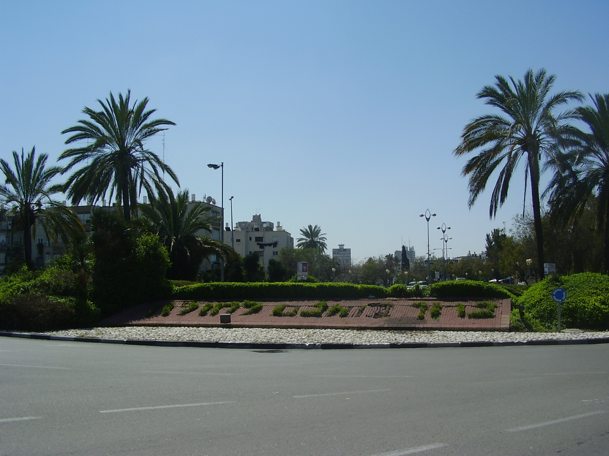 kugel square, holon